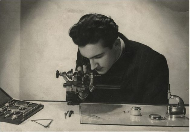 Bronisław Geselle